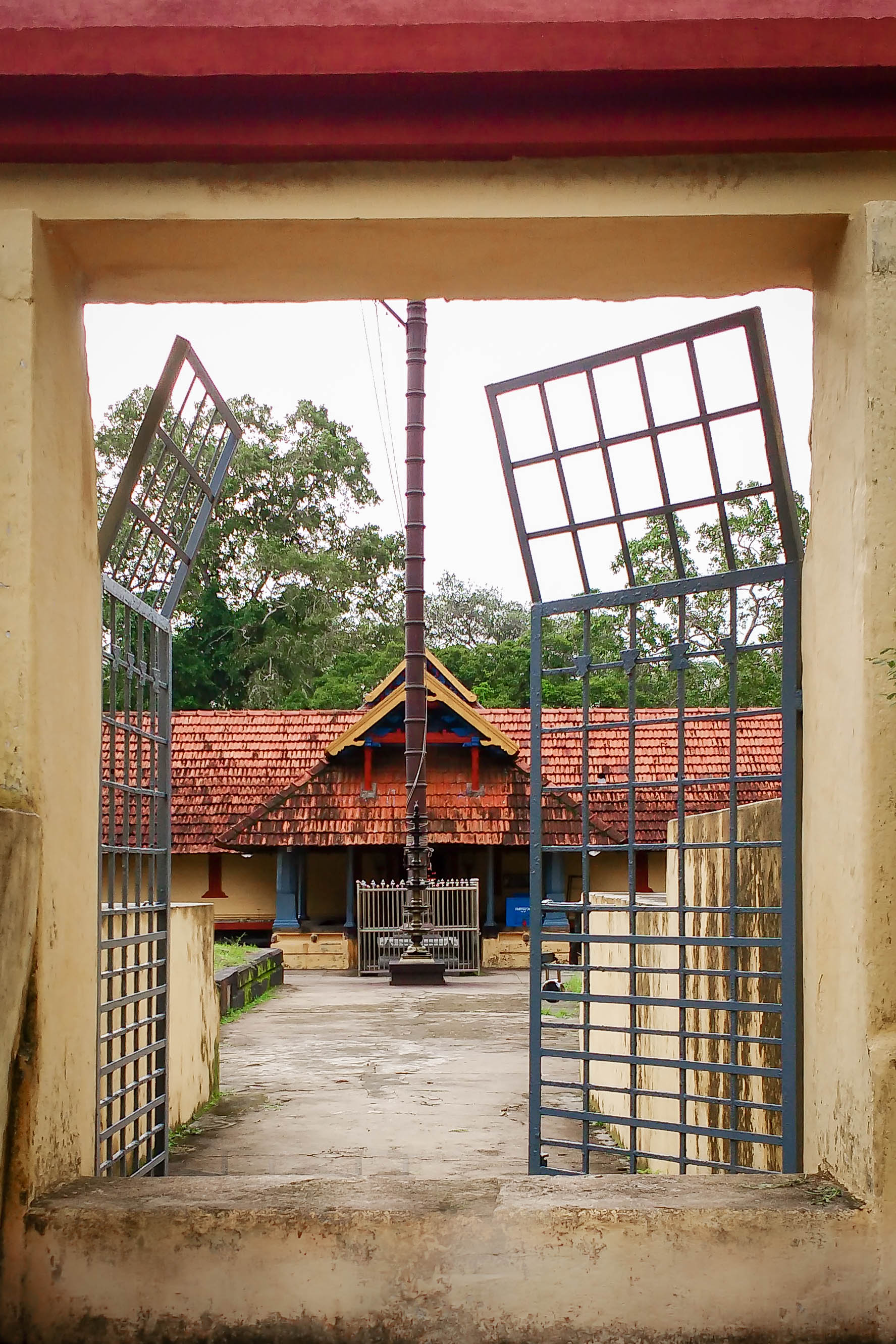 Triprangode Siva Temple, Malappuram